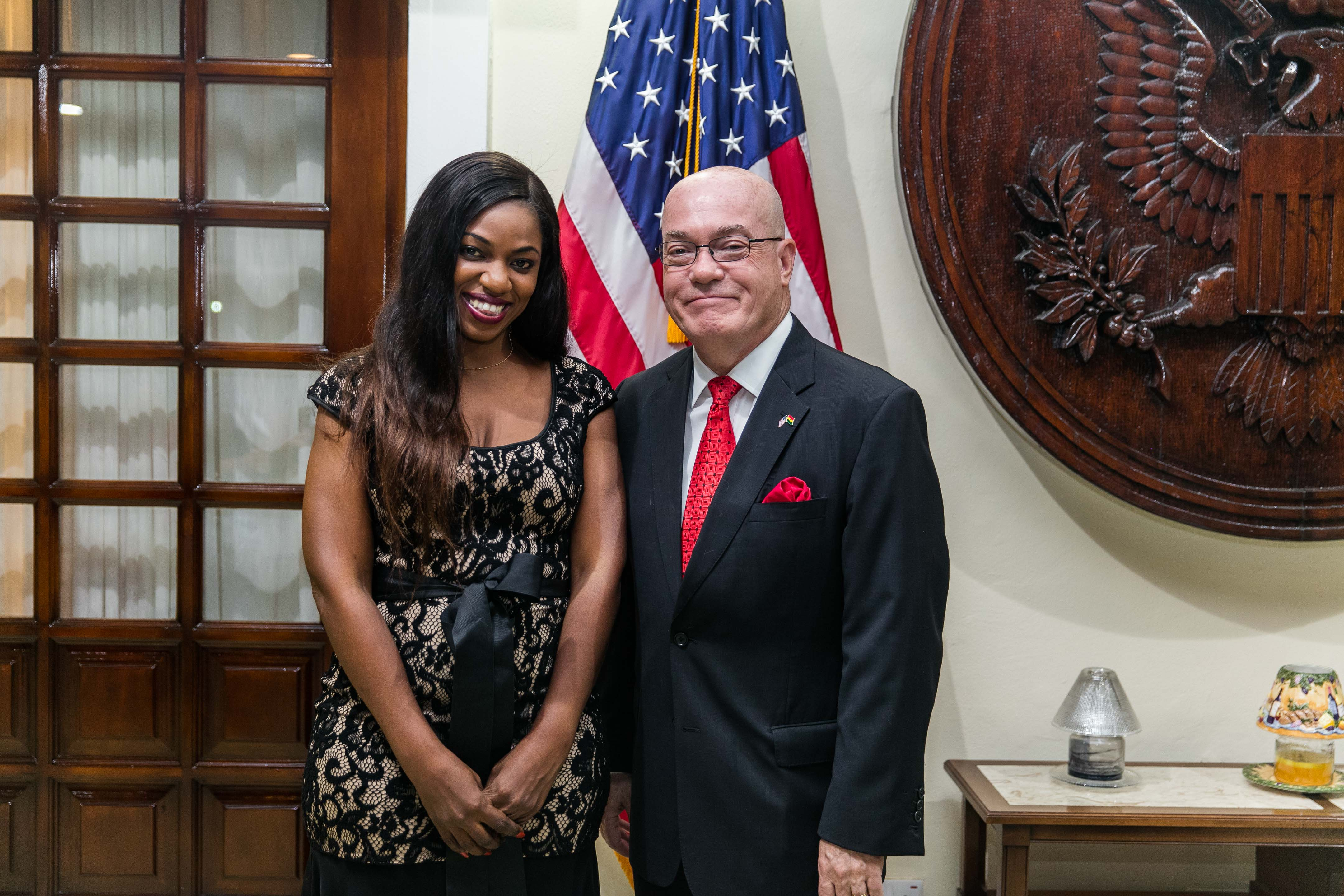 On Tuesday, November 14, 2017, Ambassador Robert P. Jackson hosted a reception for alumnae of the Fortune-U.S. Department of State Global Women’s Mentoring Partnership. The program connects talented, emerging women leaders from all over the world with members of Fortune’s Most Powerful Women Leaders for a four-week-long program. Past participants from across Africa came together in Accra for an alumnae workshop.